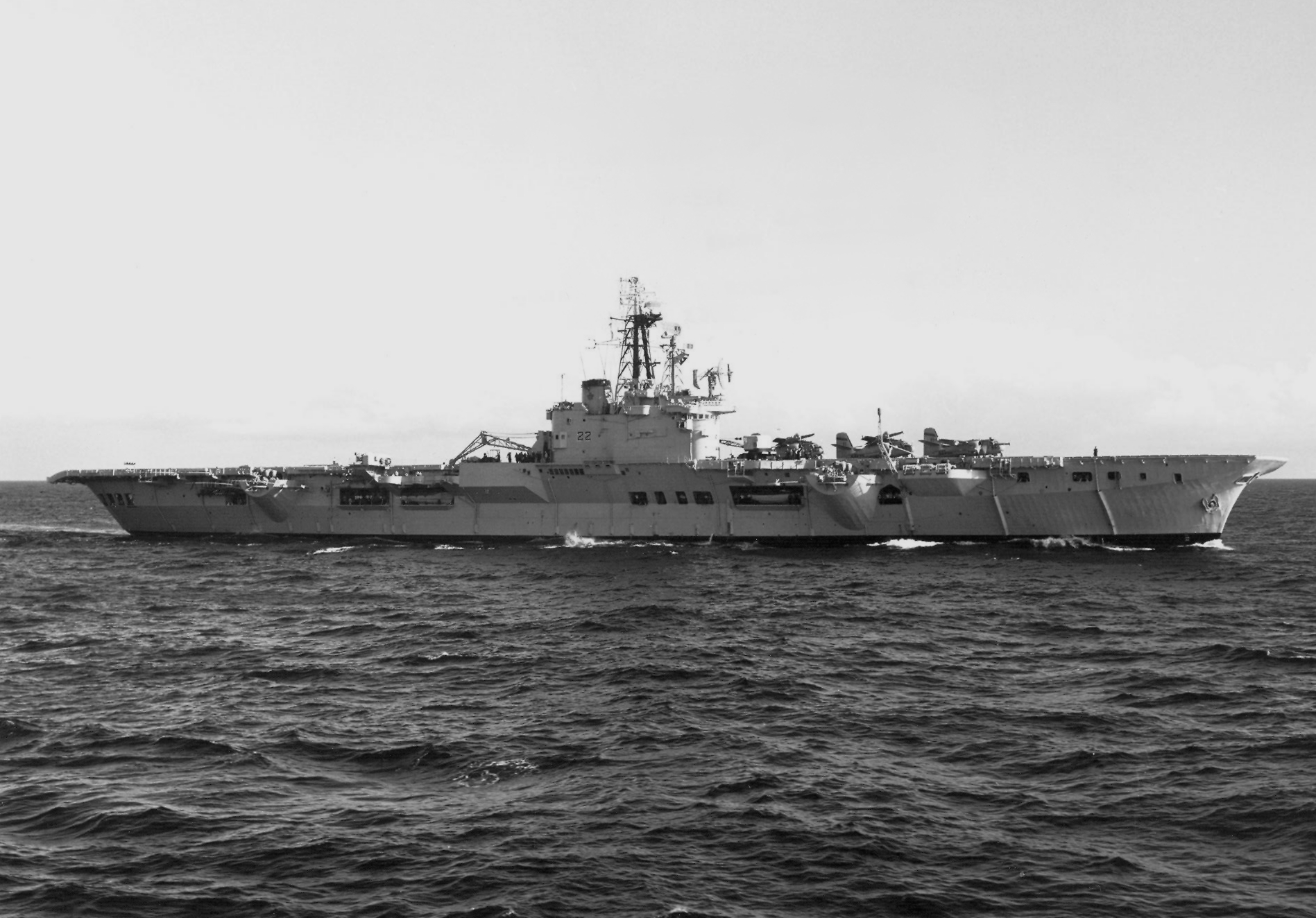 The Canadian aircraft carrier HMCS Bonaventure (CVL 22) at sea as viewed from the U.S. Navy aircraft carrier USS Essex (CVS-9), in 1961. Note that she is equipped with US radars, SPS-10 on the masttop, SPS-6 on the foremast and SPS-8A on the bridge.